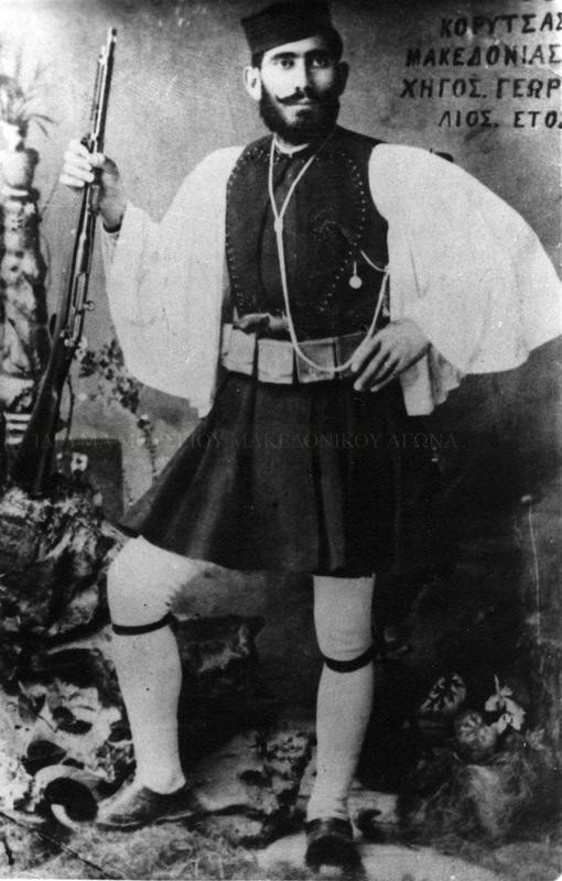 Portrait of greek revolutionary Vasileos Georgios - kapetan Sulios, born in Korcha